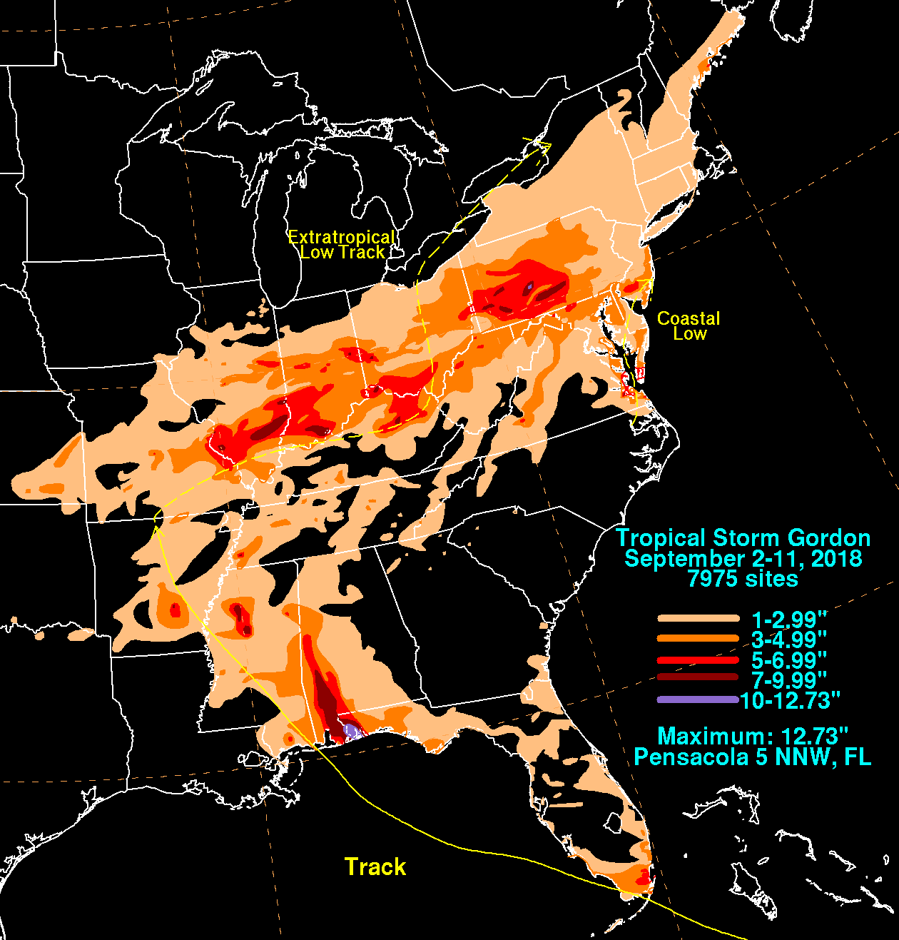 Map of rainfall associated with Tropical Storm Gordon as well as a nearby extratropical system that moved across the Ohio River Valley in early September 2018.